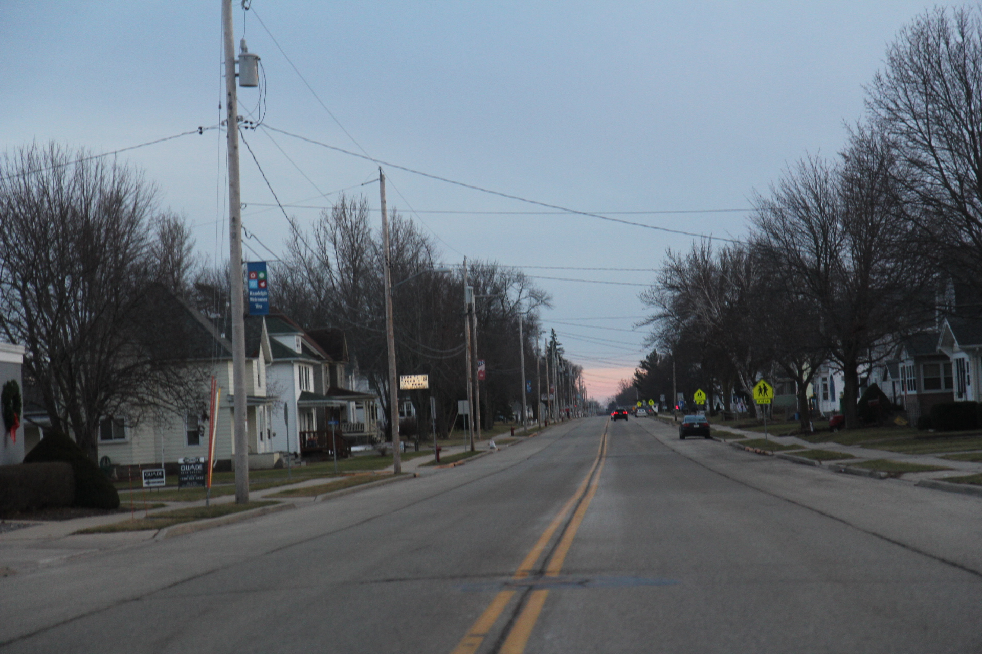 Looking south at Randolph, Wisconsin on Wisconsin Highway 73.